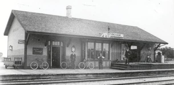 Markham Village, Toronto and Nippissing Station, c.1900